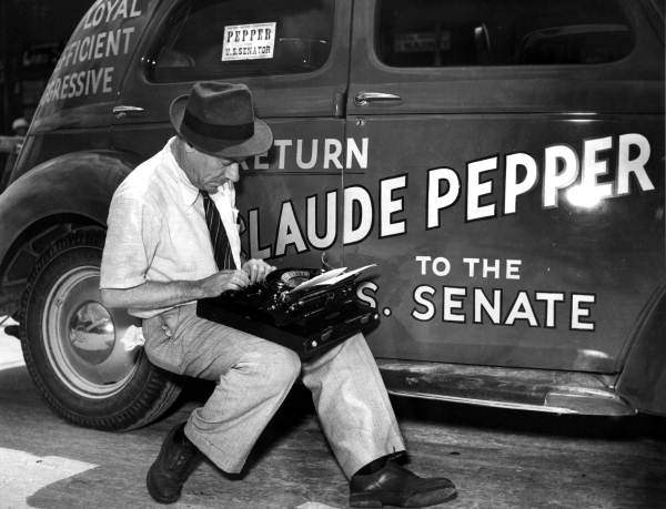 Persistent URL: Local call number: RC09190 Title: Newsman covering U.S. Senator Claude Pepper's campaign - Tampa Date: 1938 Physical descrip: 1 photoprint - b&w - 8 x 10 in. Series Title: Reference Collection Repository: State Library and Archives of Florida, 500 S. Bronough St., Tallahassee, FL 32399-0250 USA. Contact: 850.245.6700.